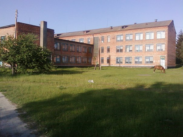 School in the village Korost, Sarny Raion